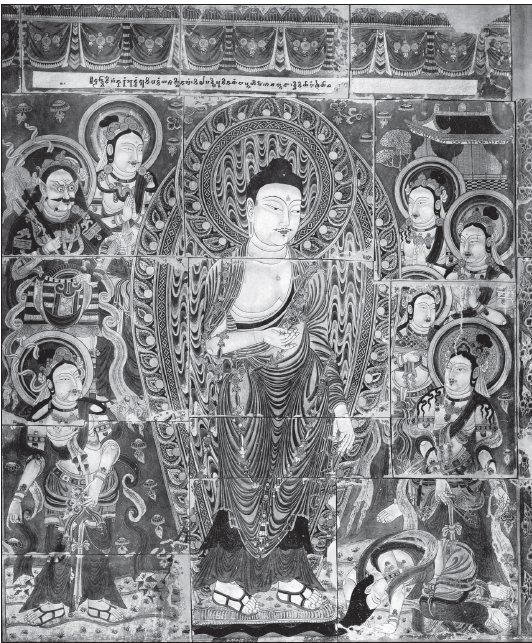 The Dīpaṁkara Jātaka is one of the best-known jātakas of the Buddha. In a remote past eon Śākyamuni was born as a Brahman youth called Megha. The king at that time monopolized the flower market in order to offer all flowers to Buddha Dīpaṁkara himself. Yet Megha managed to find some flowers and offered them to Dīpaṁkara. In addition, when Dīpaṁkara was about to pass a muddy road, Megha unfurled his hair onto the mud for the Buddha to step on. Having received these offerings from Megha, Dīpaṁkara predicted for the young Brahmin a future Buddhahood. ... In this painting from Bezeklik (Figure 9), on the right side of Dīpaṁkara Buddha, Megha is shown standing holding flowers in his hands and he is shown again kneeling down laying his hair under the feet of Dīpaṁkara. The most recognizable exclusive attribute of this painting for identification is the hair. (Zhu, Tianshu (12 July 2012), "Reshaping the Jātaka Stories: From Jātakas to Avadānas and Praṇidhānas in Paintings at Kucha and Turfan", Buddhist Studies Review, 29 (1): 73